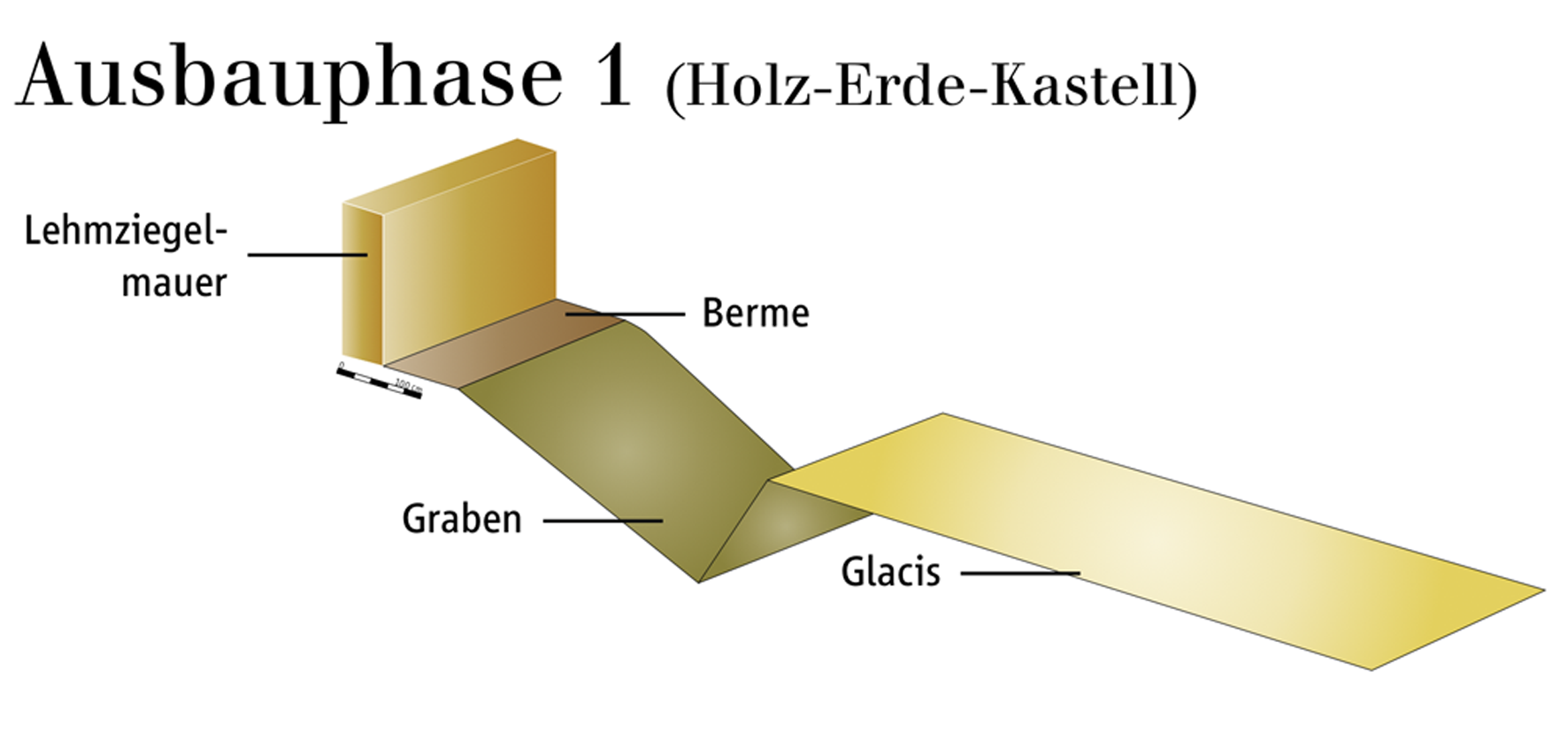 Fortifacation of fort comagena: stage of extension